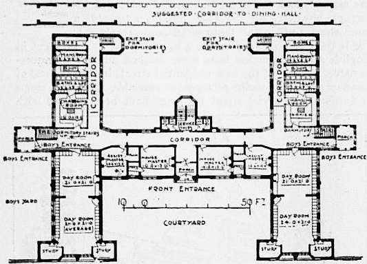 Plan of a Master’s House, New Christ’s Hospital. (Webb and Bell).Illustration from 1911 Encyclopædia Britannica, article Architecture.